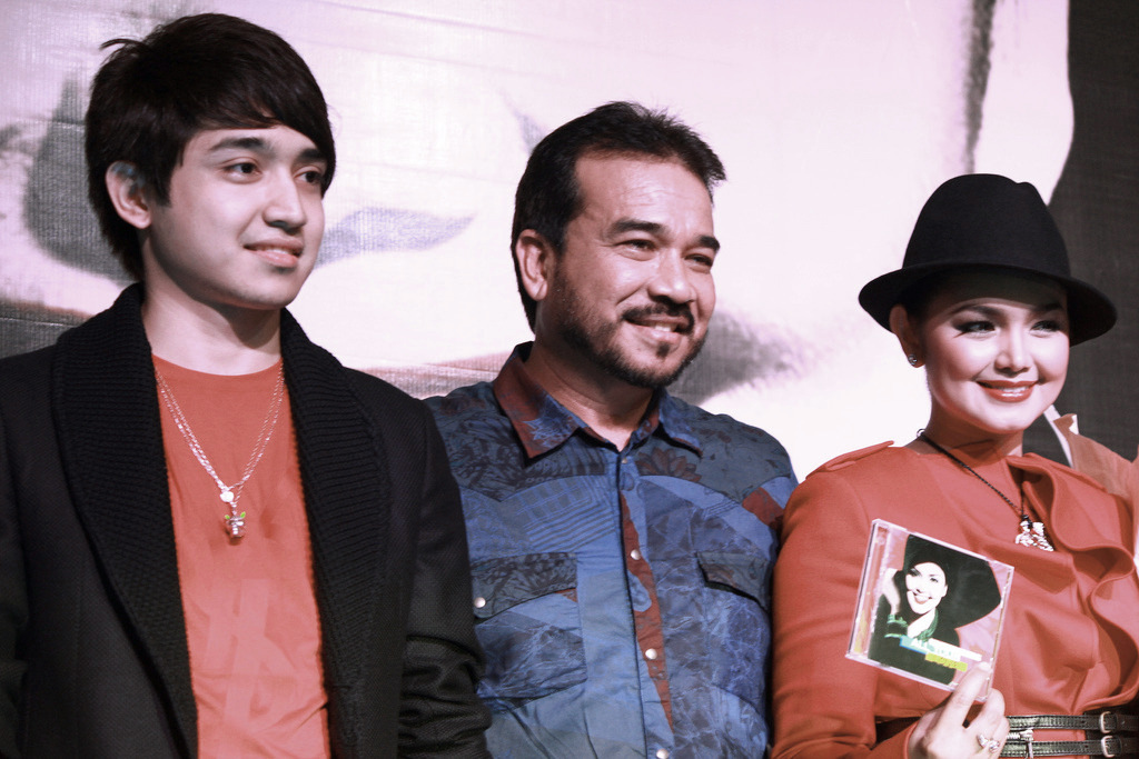 Siti Nurhaliza during the launch of her first English album, All Your Love at Shook Restaurant, Starhill Gallery, Bukit Bintang, Kuala Lumpur. Seen here with her husband Datuk Seri Khalid with her stepson, Adib Khalid.